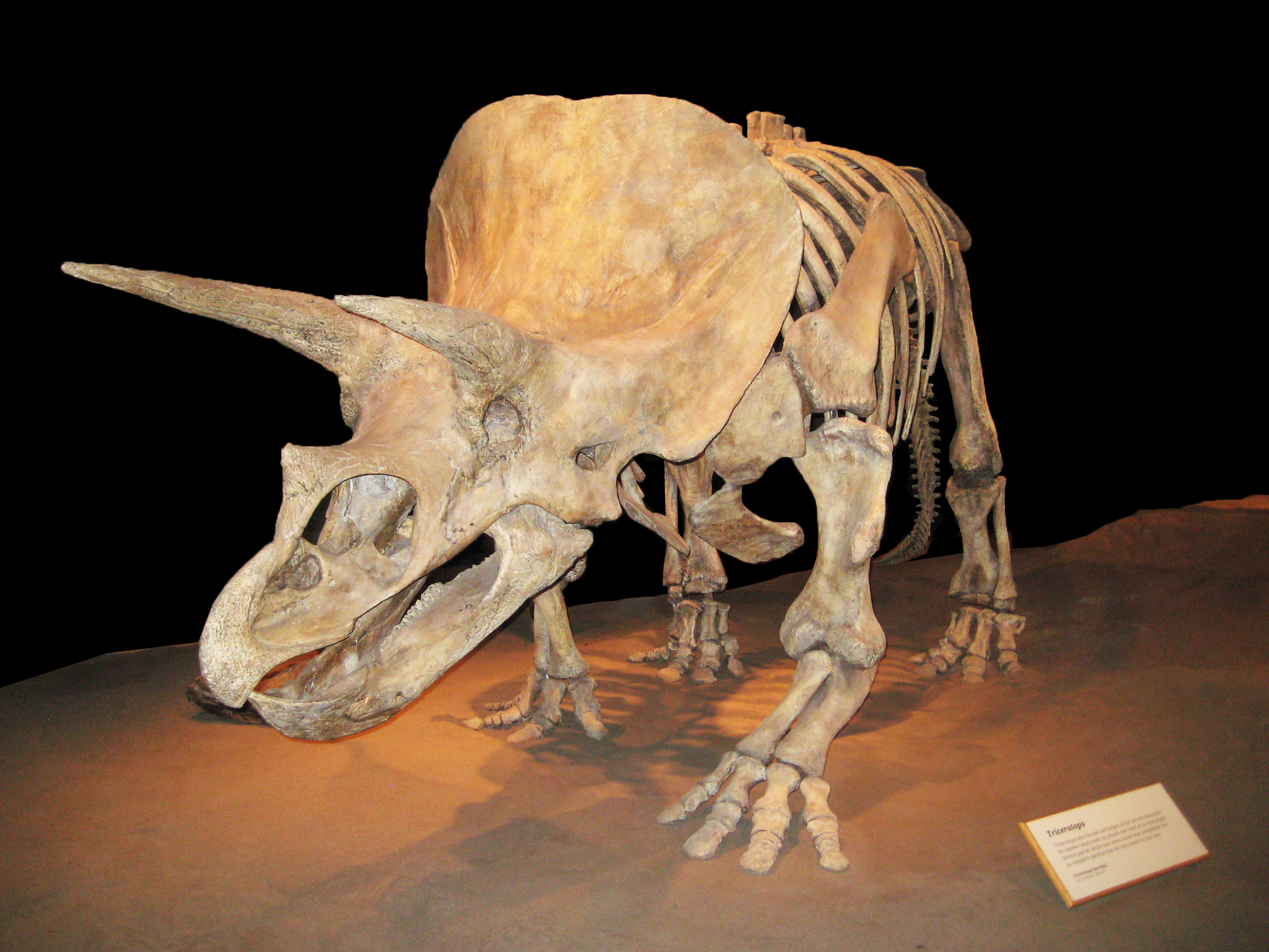 Triceratops, Royal Tyrrell Museum of Paleontology, Alberta, Canada